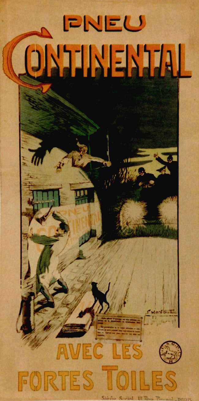 Advertising poster for Continental tyres.